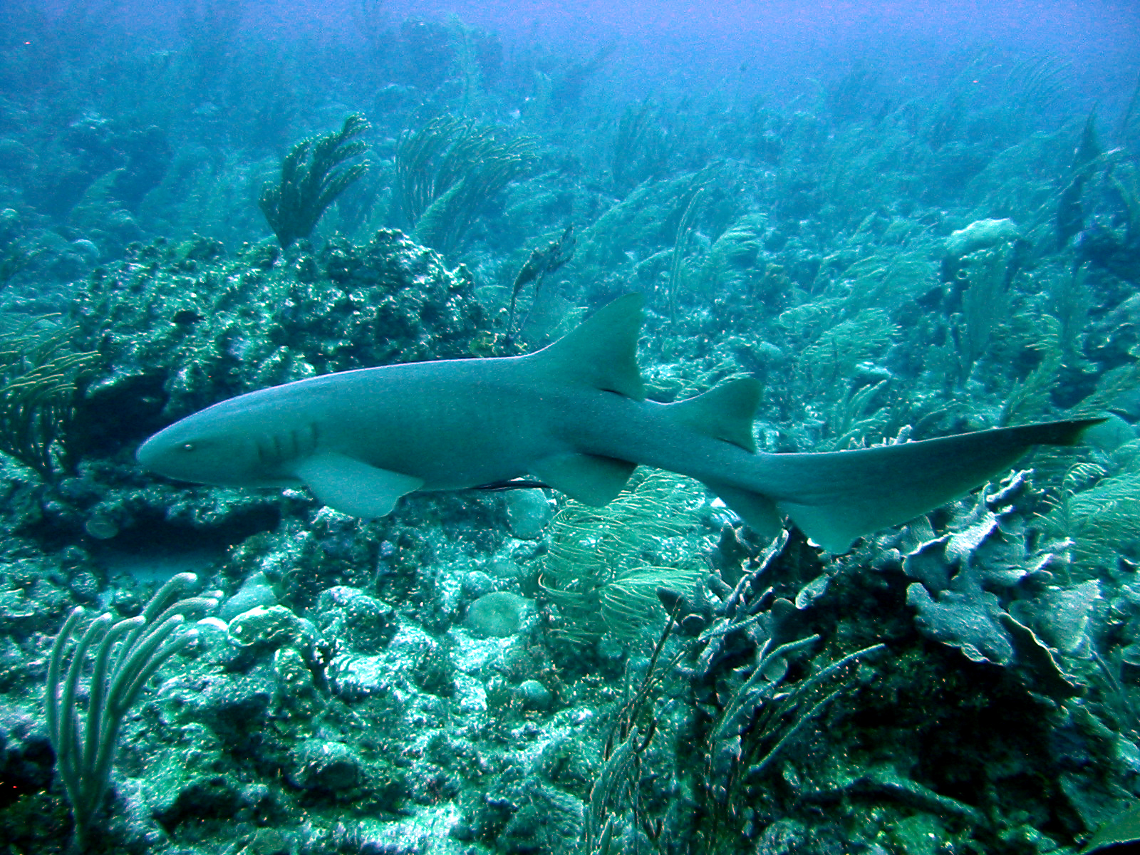 Photo taken by Joseph Thomas near Ambergris Caye, Belize 11-22-2003